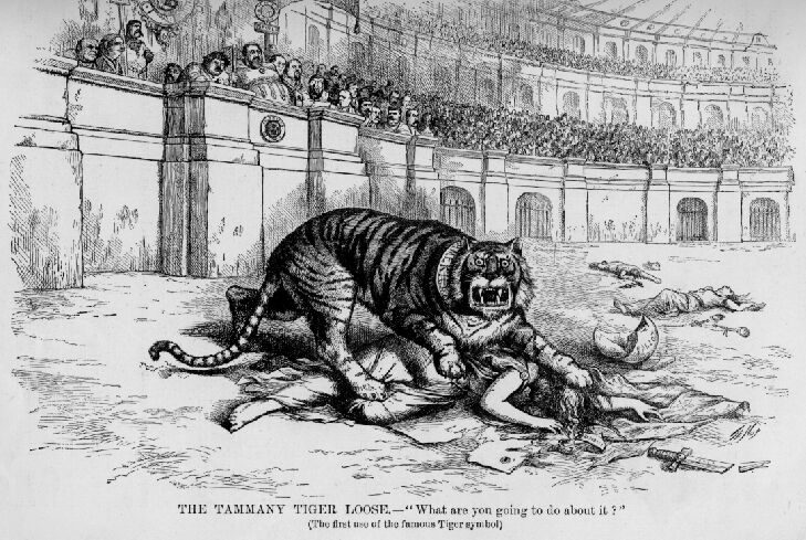 US cartoon 1870s by Thomas Nast